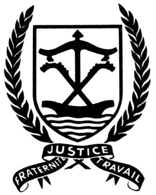 coat of arms of Republic of Dahomey